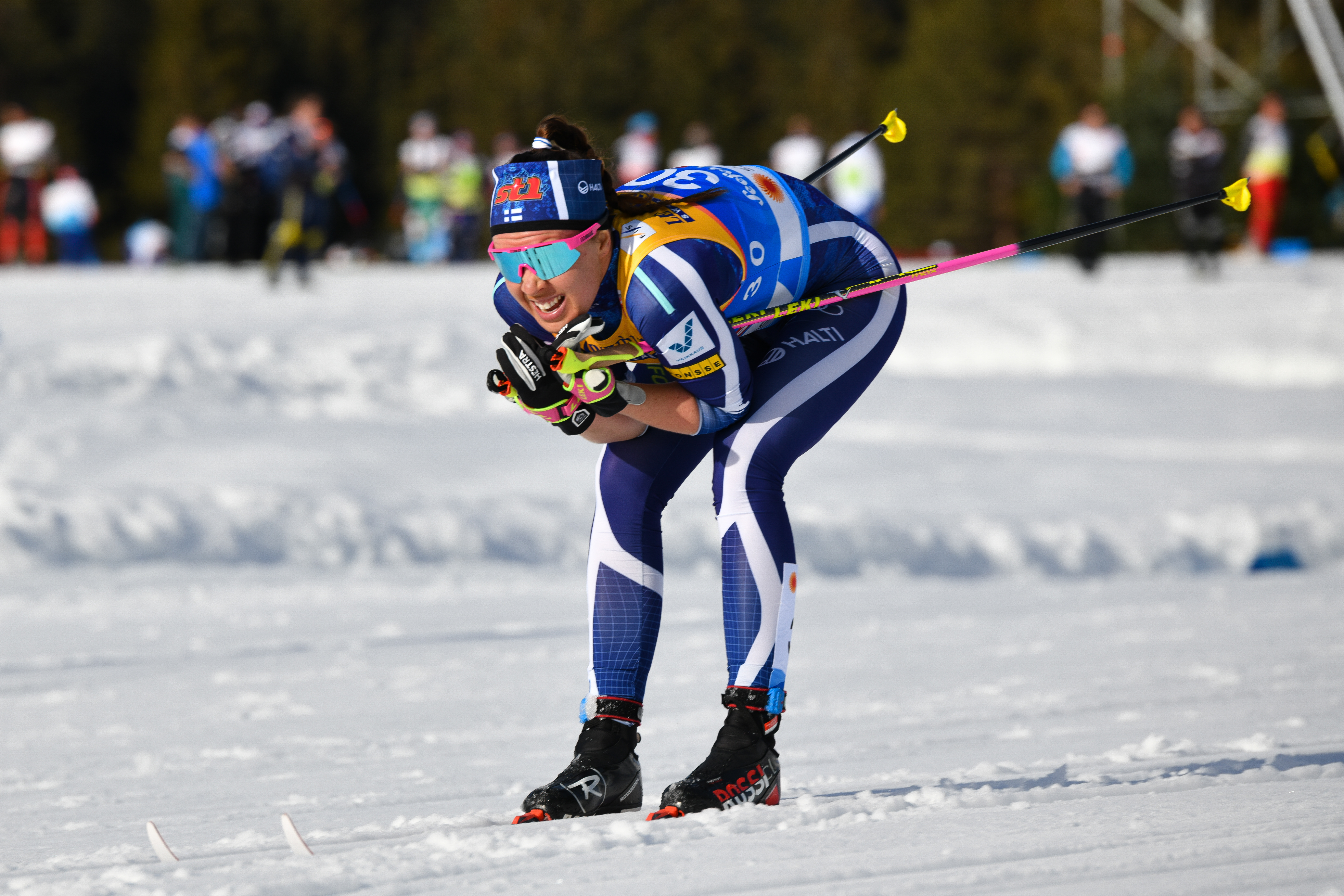 FIS Nordic Wolrd Ski Championships Seefeld 2019 - Ladies Cross Country 10km. Picture shows Kerttu Niskanen (FIN).